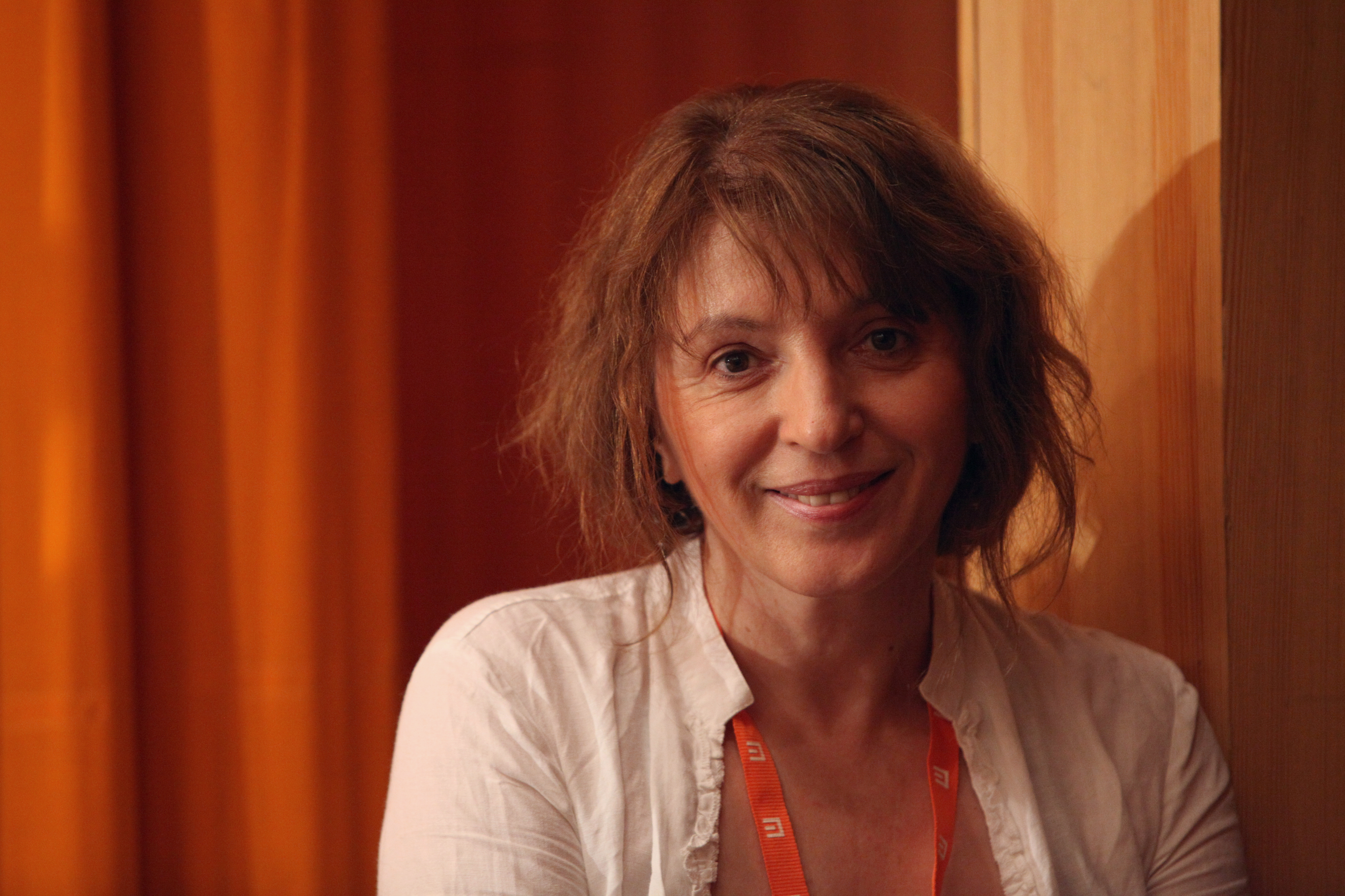 Serbian actress Mirjana Karanović at 44th Karlovy Vary International Film Festival